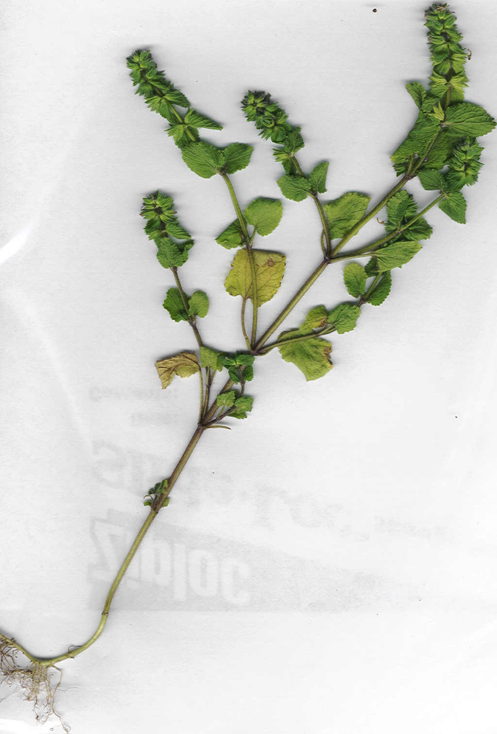 Stachys arvensis (plant). Location: Maui, Makawao